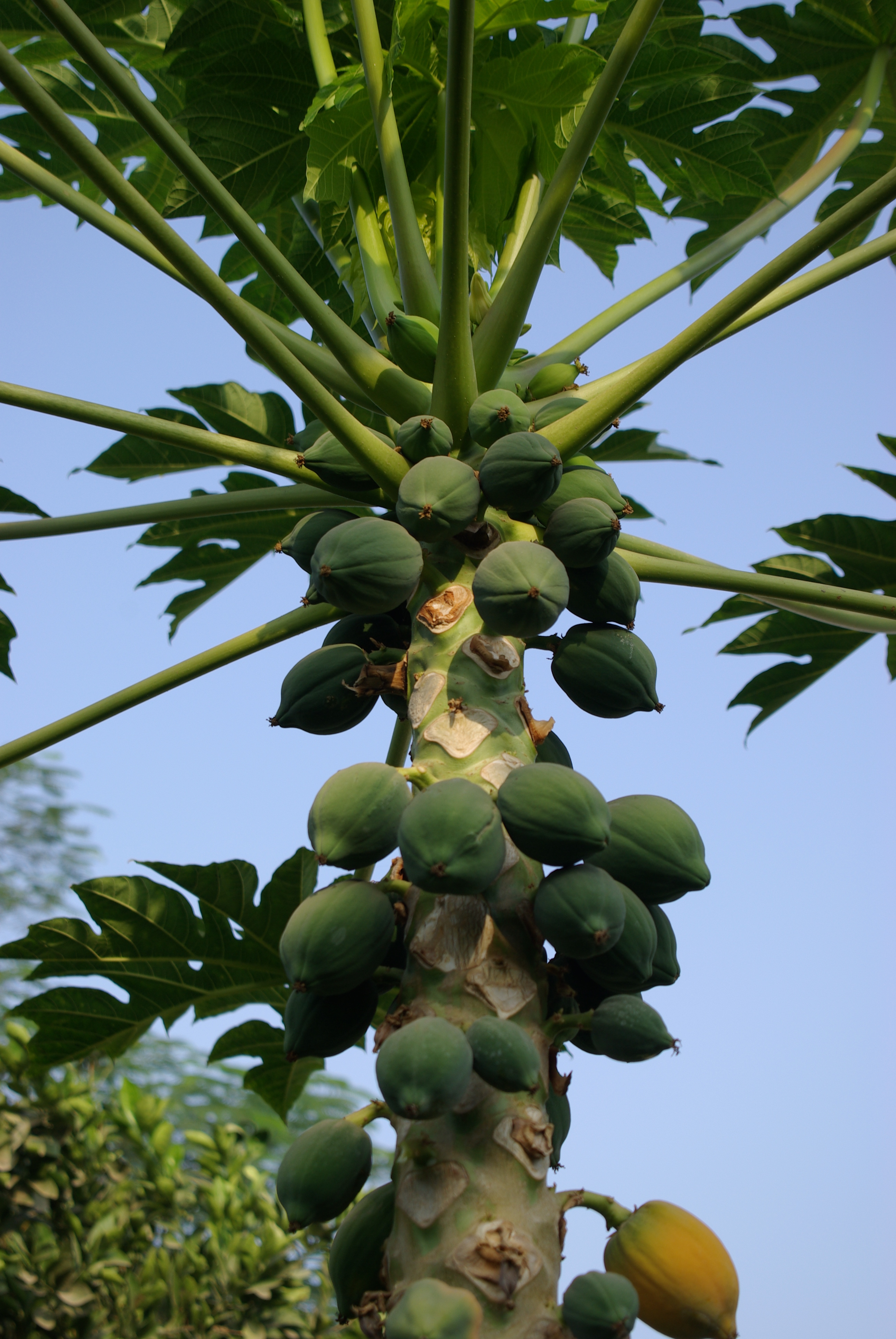 Papaya fruit at a plant, photographed in Cairo